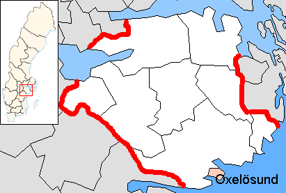 Oxelösund Municipality in Södermanland County Designd by me, based on Image:Södermanland County.png